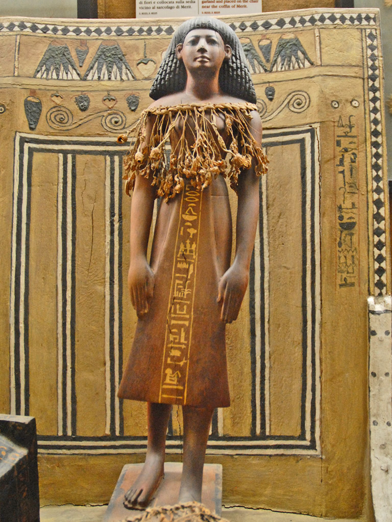 The statuette of the 18th dynasty Egyptian official Kha from Theban Tomb 8 in Upper Egypt. Kha's tomb was discovered intact by Ernesto Schiaparelli in 1906. Its funerary treasures are today located in the Egyptian Museum of Turin, Italy.